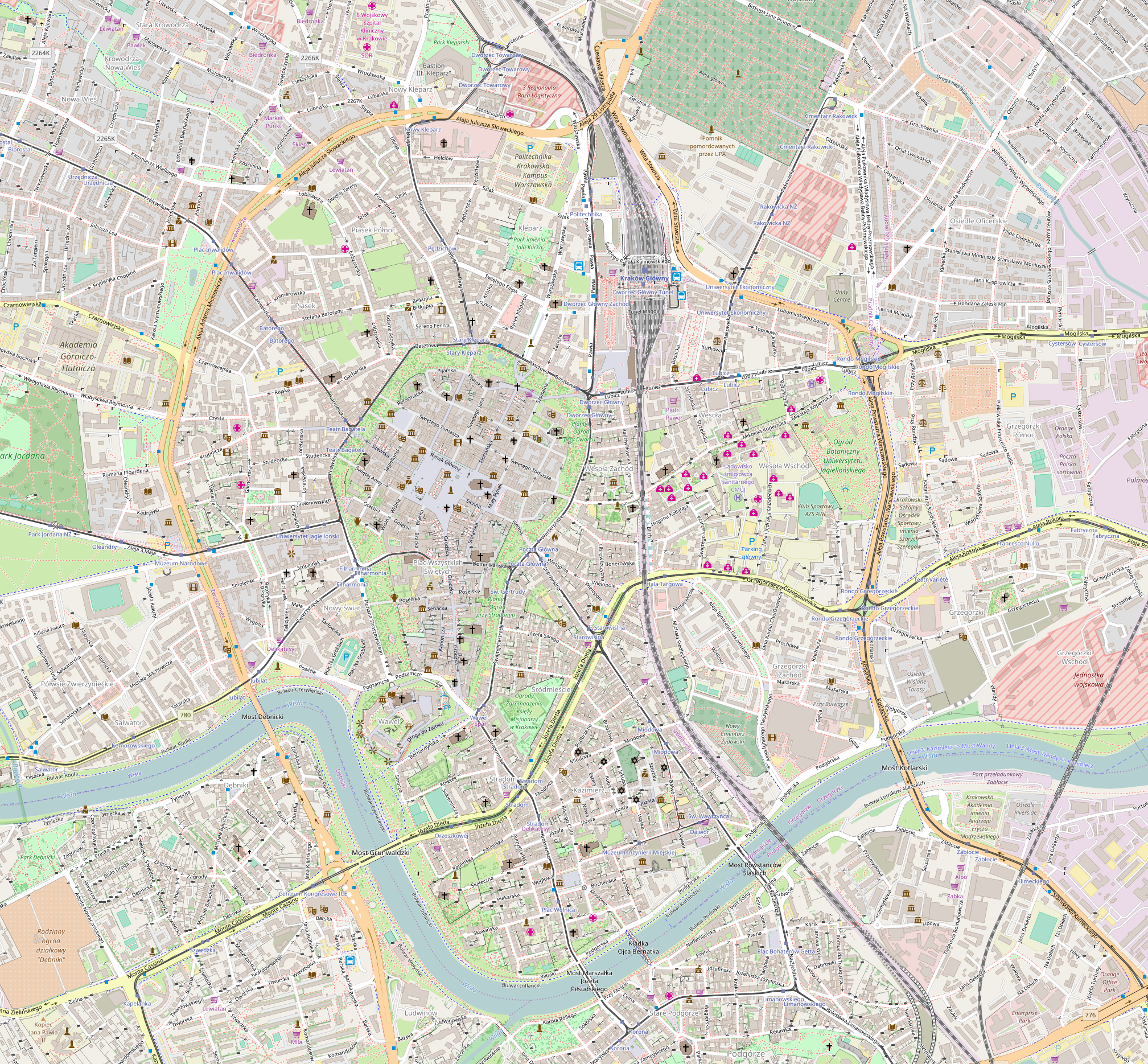 OpenStreetMap - Map of Kraków – center